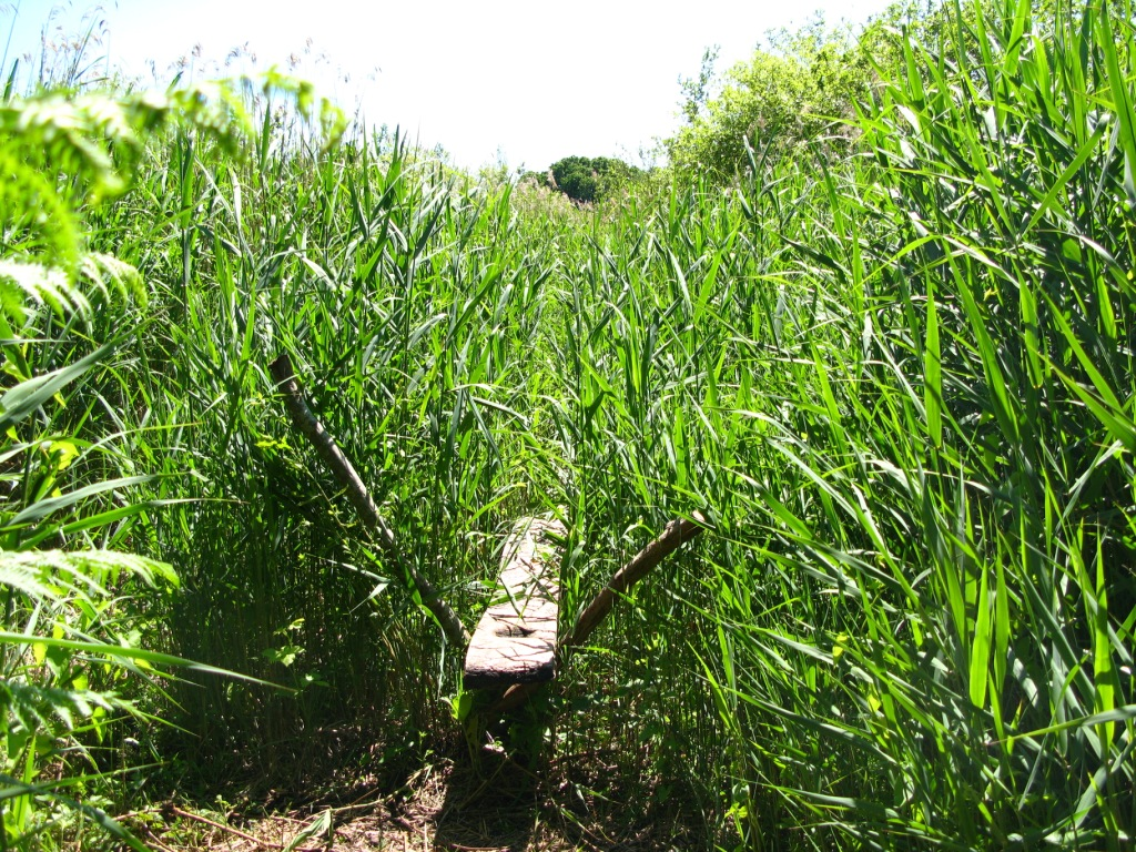 A replica of a short section of the Sweet Track, situated close to the line of the original track in the Shapwick Heath National Nature Reserve in Somerset, England. The wooden trackway was originally constructed in 3606BC to cross a marsh.